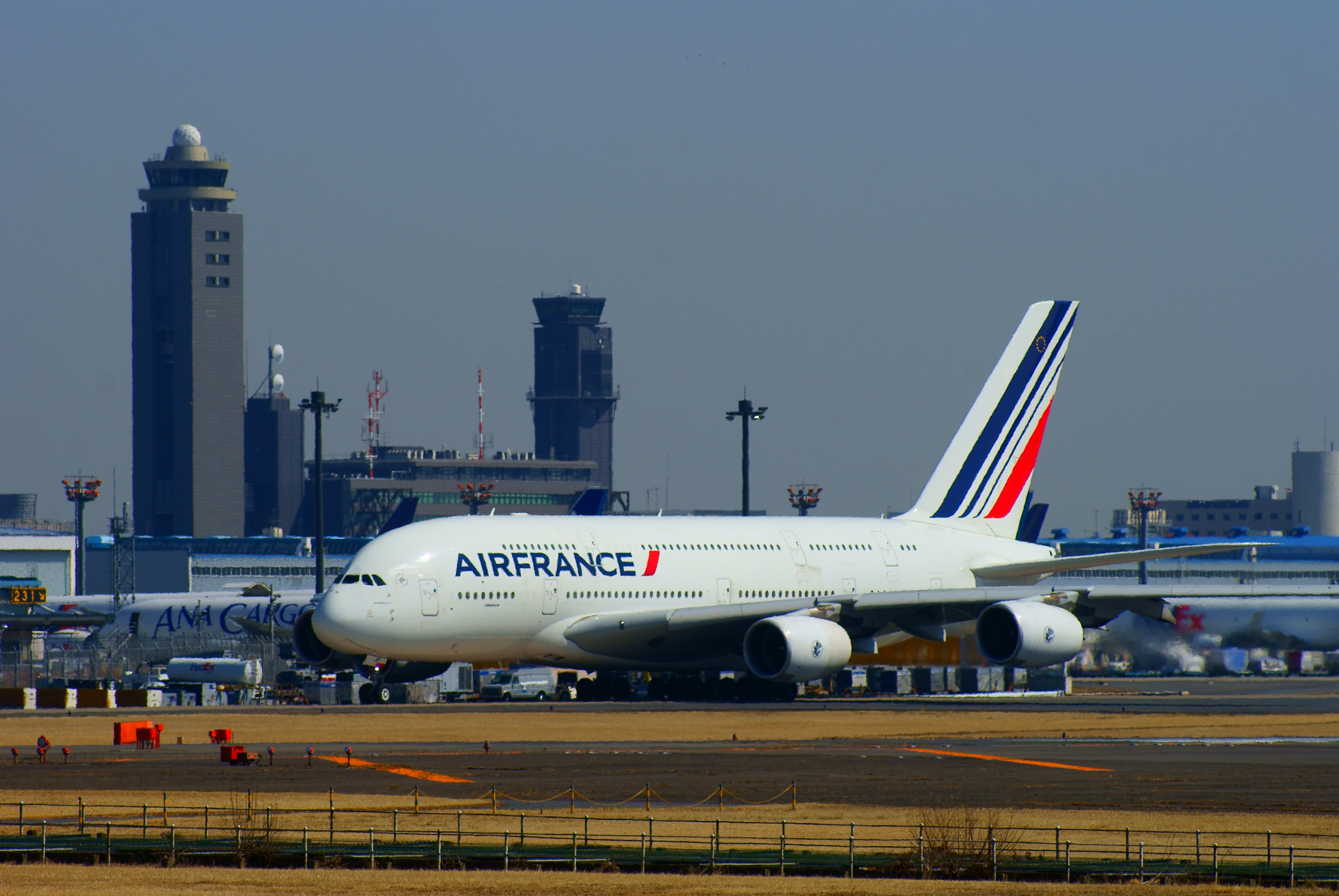 Air France A380 at Narita International Airport